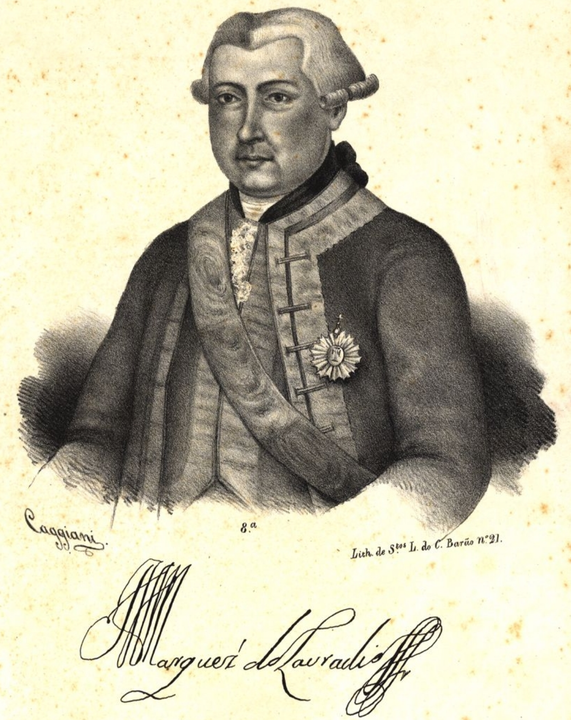 D. Luís de Almeida Portugal Soares de Alarcão d'Eça e Melo Silva Mascarenhas (1729-1790), 5th Count of Avintes, 2nd Marquis of Lavradio, and 11th Viceroy of Brazil.